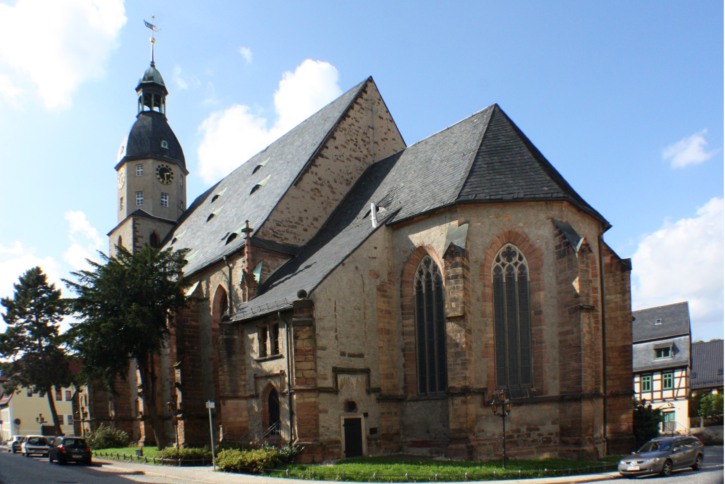 City church Saint Nicholas in Schmölln/Thuringia